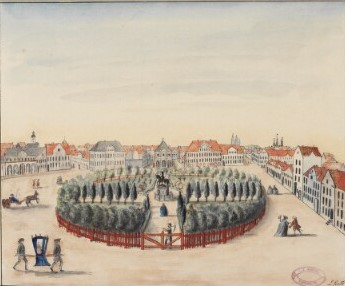 Kongens Nytorv in Copenhagen, Denmark